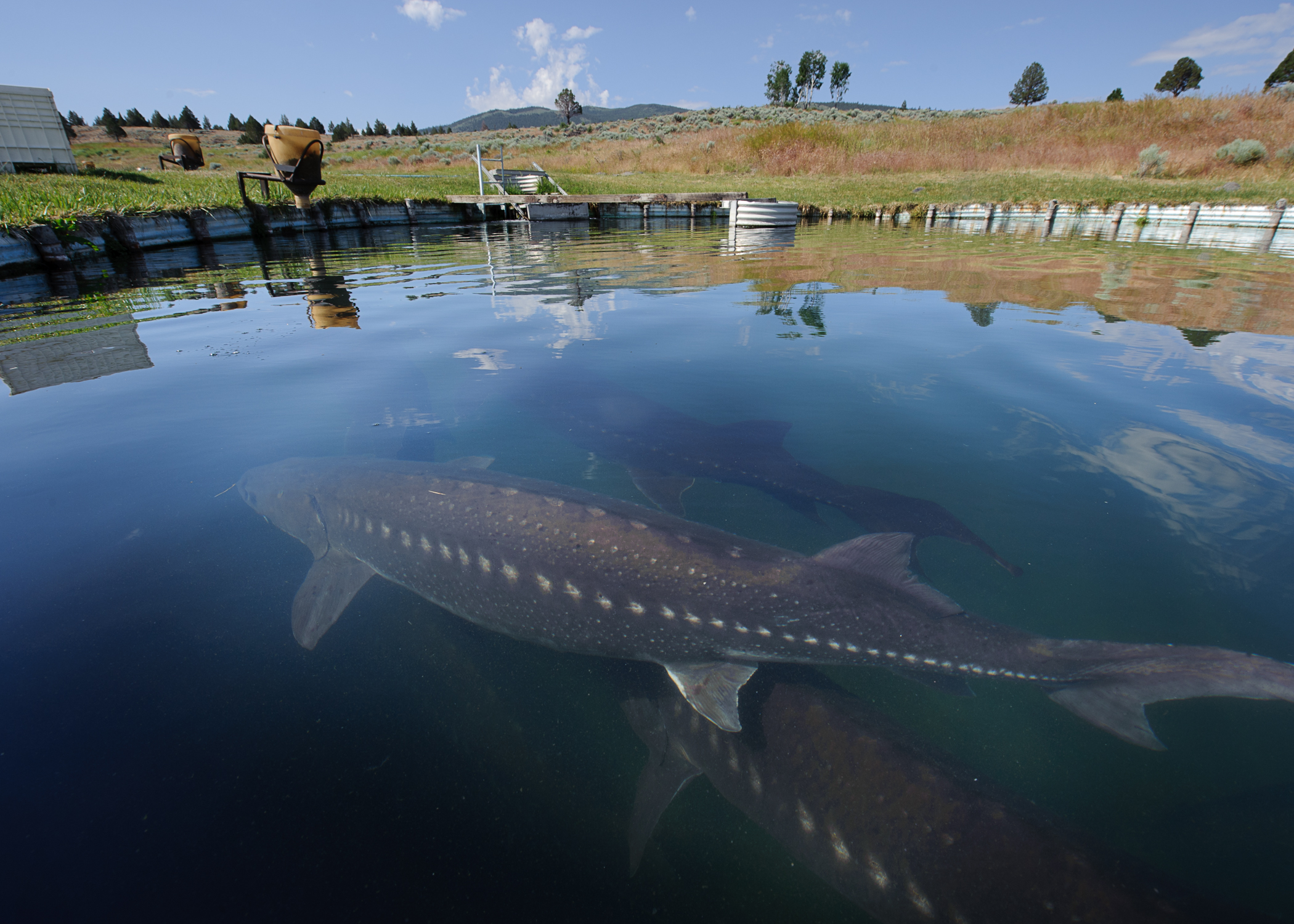 Acipenser transmontanus grown for caviar at Willow Creek Ranch, Likely, California, USA, south of Alturas